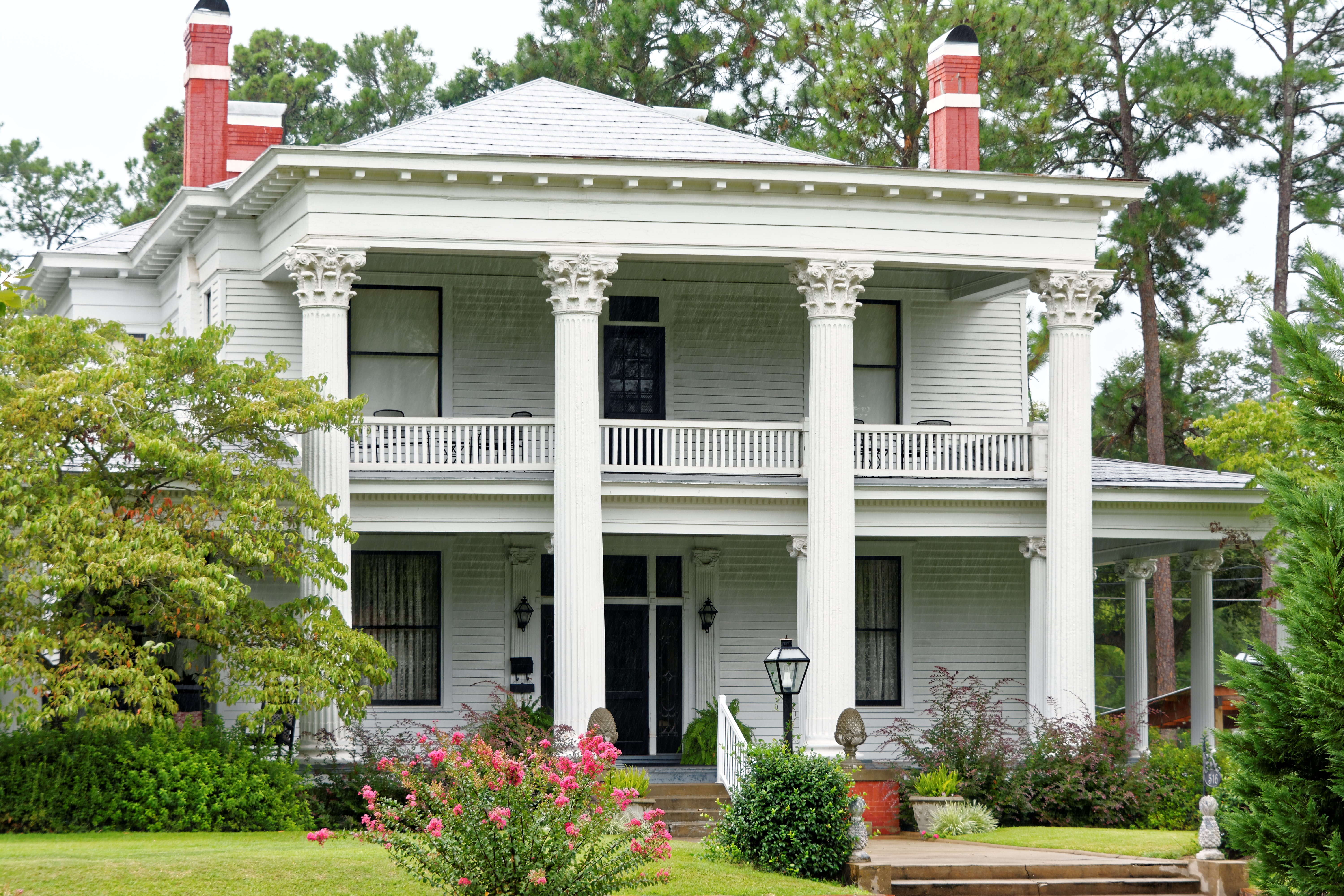 Dorminy-Massee House, Fitzgerald, Georgia, U.S.